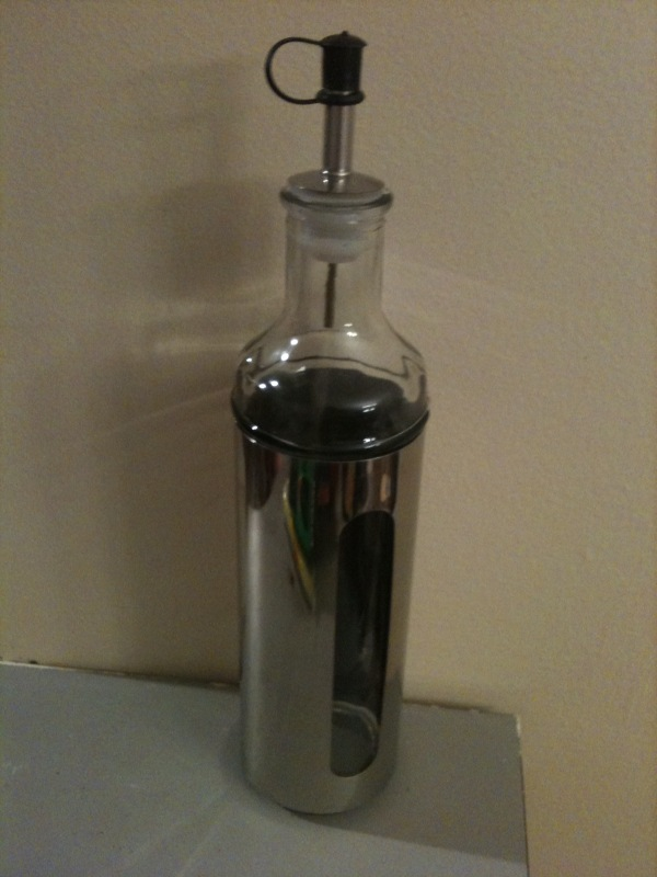 Vinegar creuset dispenser